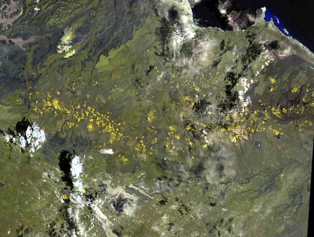 The long chain of pyroclastic cones and lava flows extending East-West across this Landsat image is the Assab volcanic field near the Red Sea coast in southern Eritrea. This spectacular range of basaltic cinder cones and associated lava flows covers a 55 x 90 km area, and flows reached the Red Sea along a broad front. The vents of the Assab volcanic field were constructed along a broad E-W-trending line that extends to the coastal city of Assab, out of view to right.